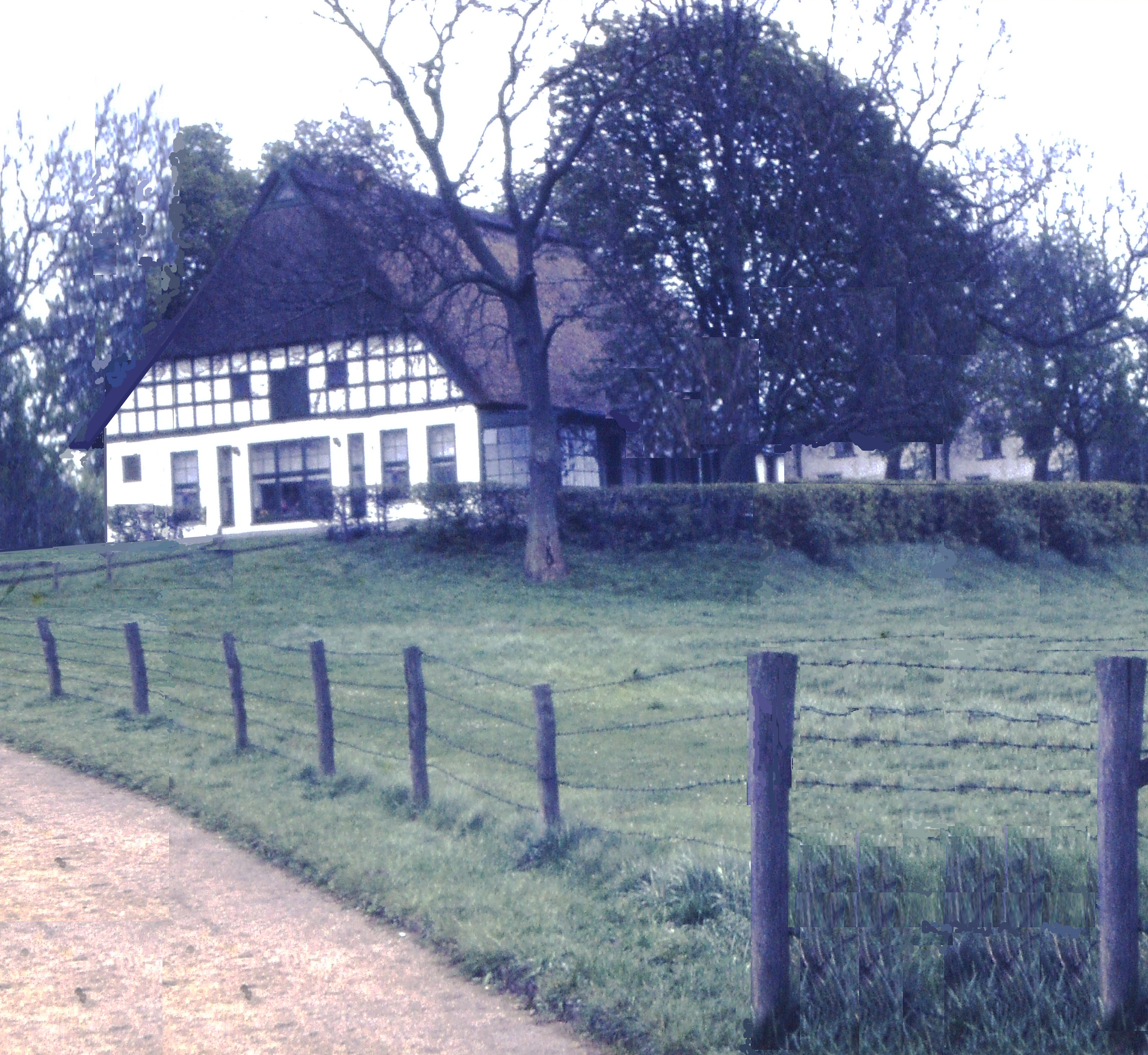 Juergenshof in Bremen Pauline Marsh, historical photo from 1965